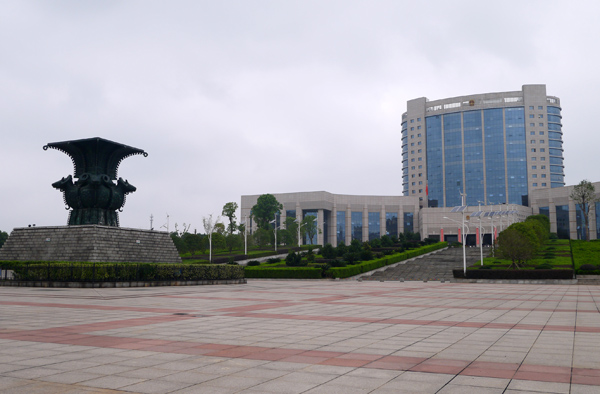 city hall square of Ningxiang